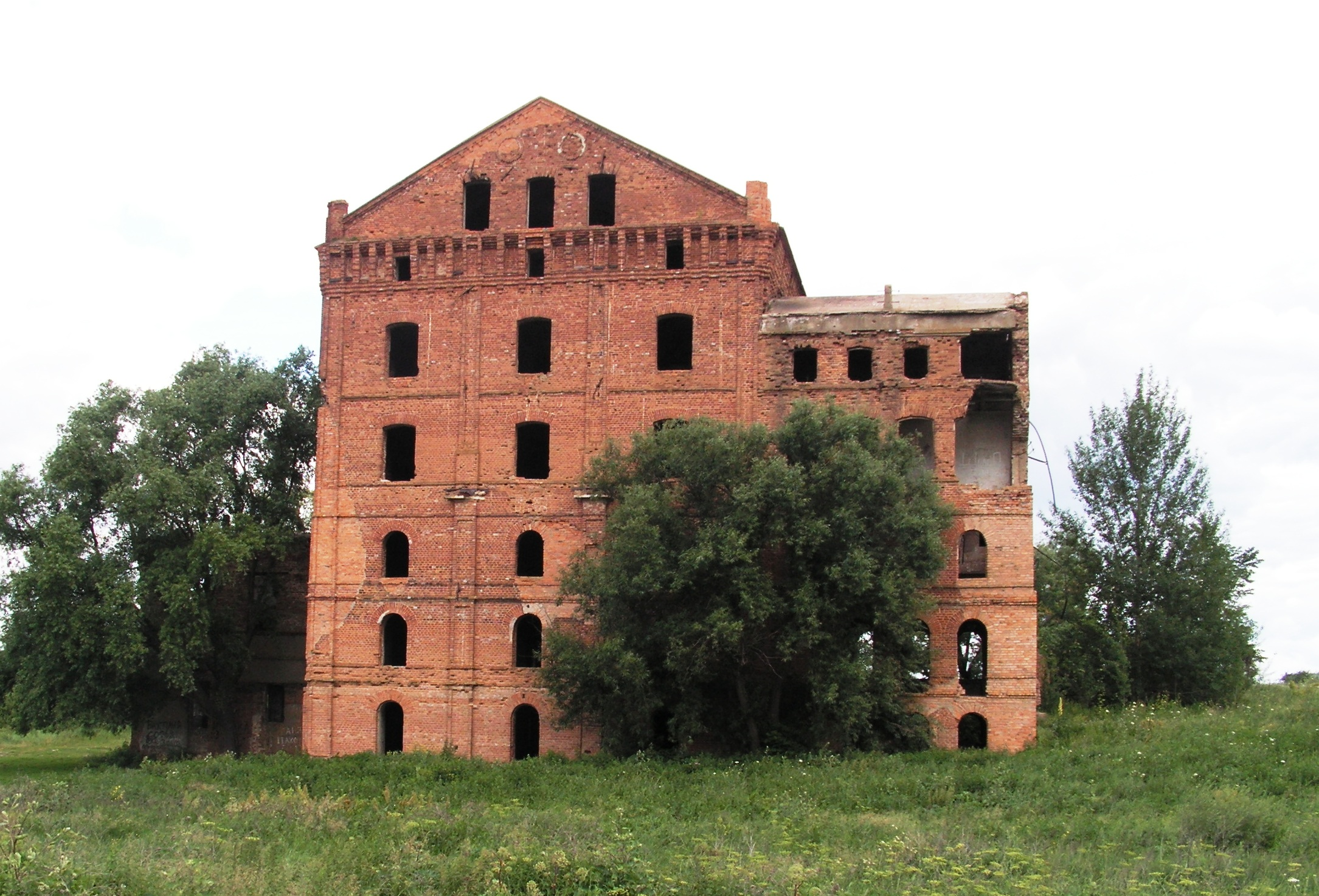 AdamMeln